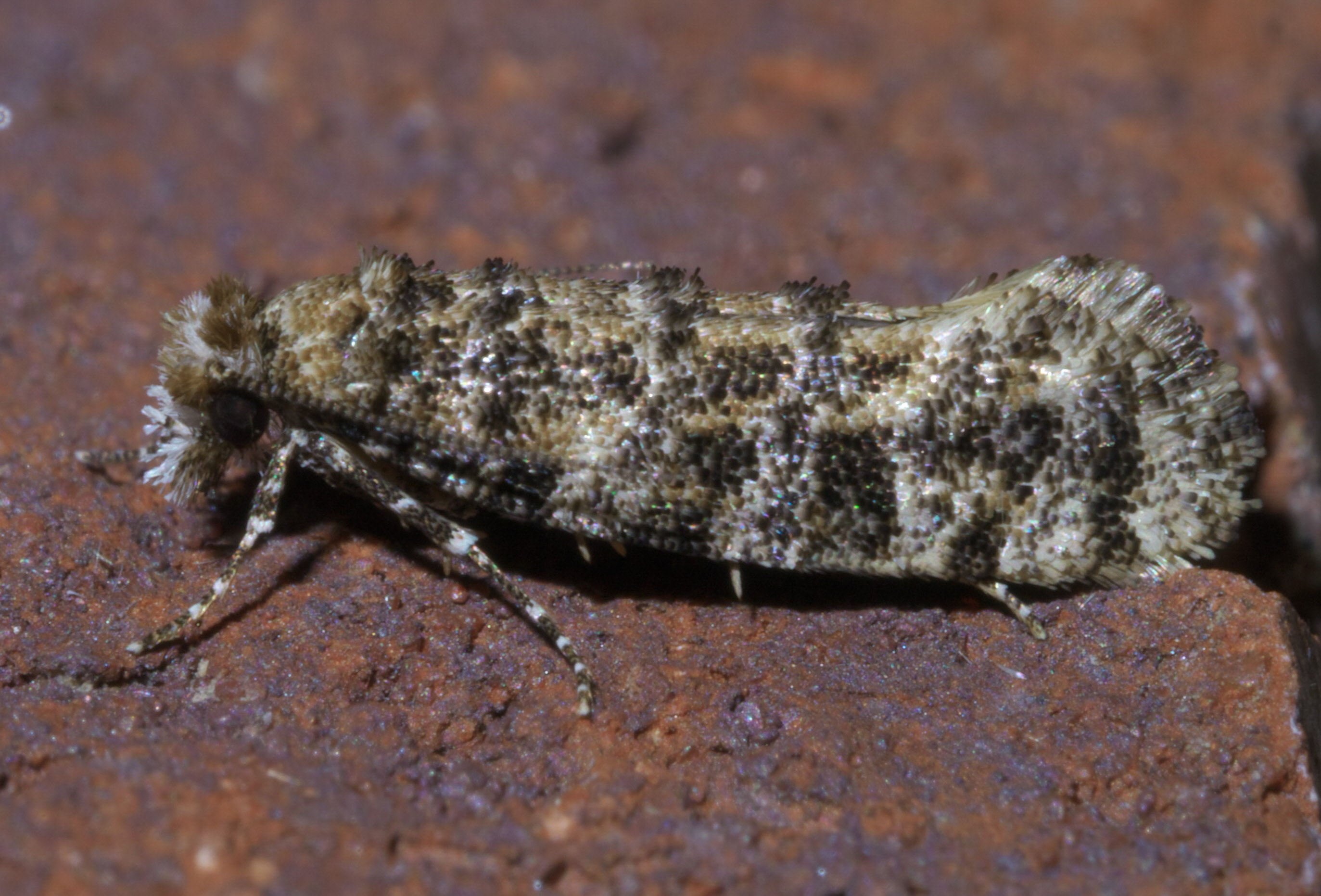 Xylesthia pruniramiella, speckled xylesthia moth, Size: 8.5 mm, ID Confidence: 89